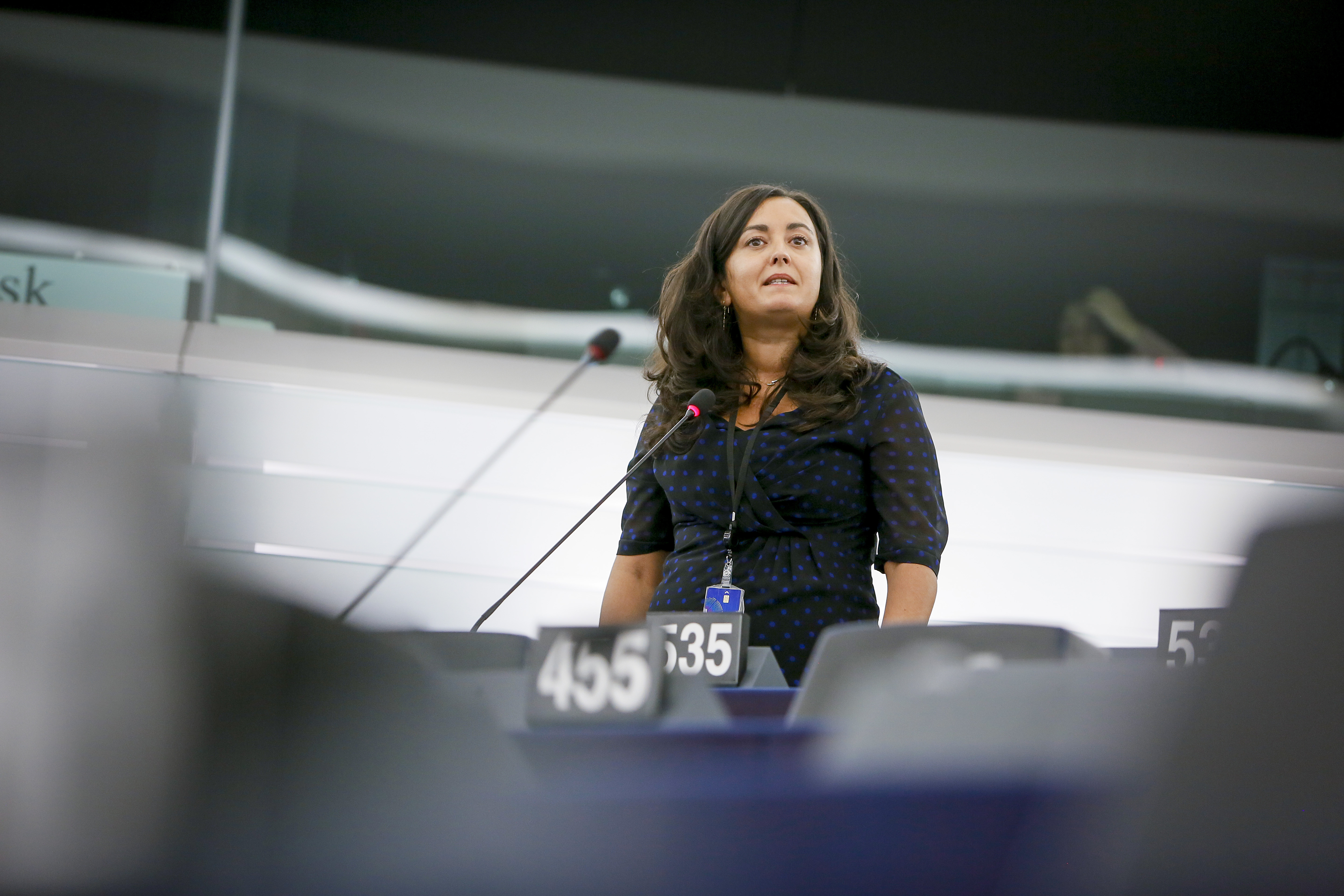 Plenary session - The danger of violent right-wing extremism (in the light of the recent events in Halle, Germany)